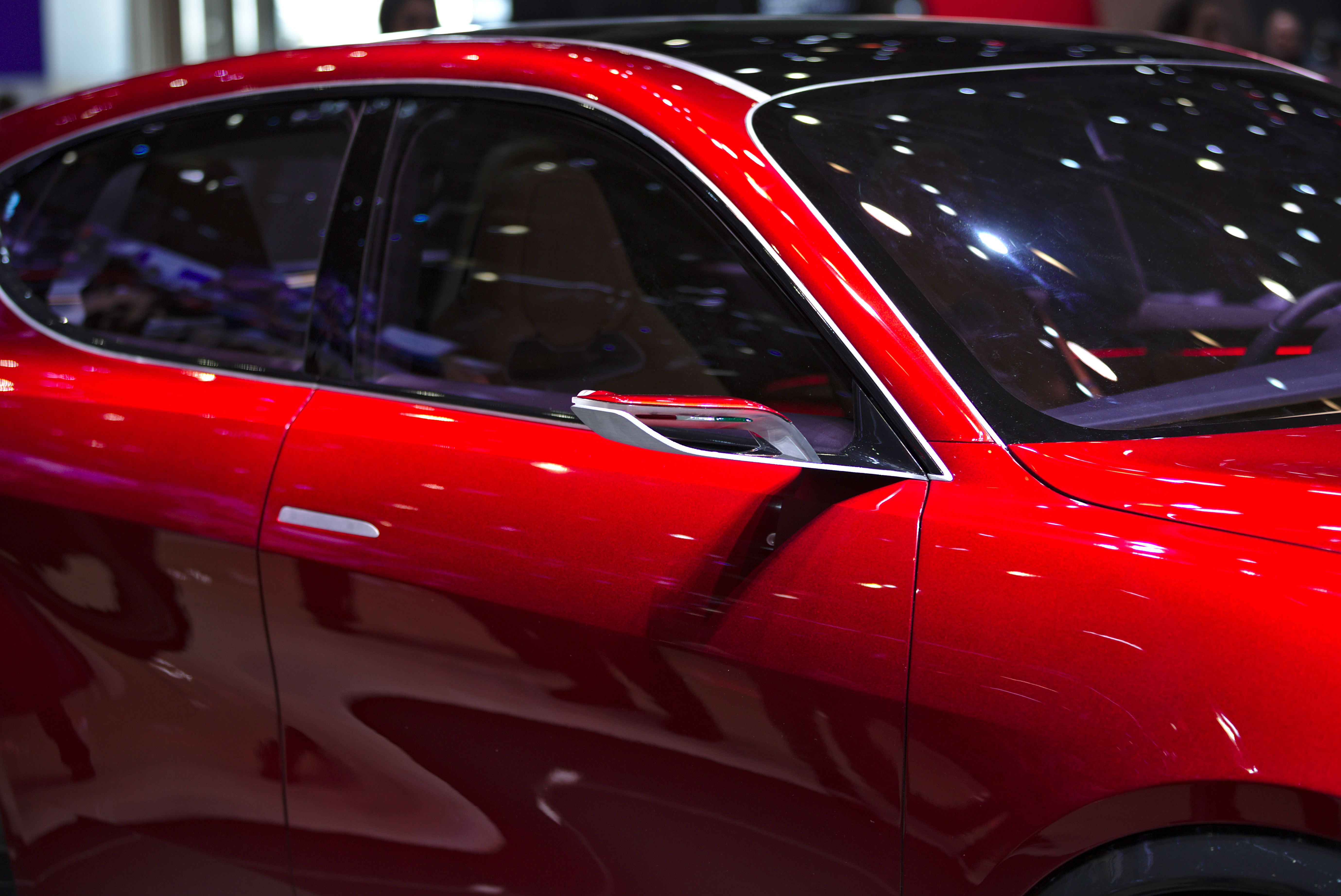 Alfa Romeo Tonale Concept at Geneva Motor Show 2019